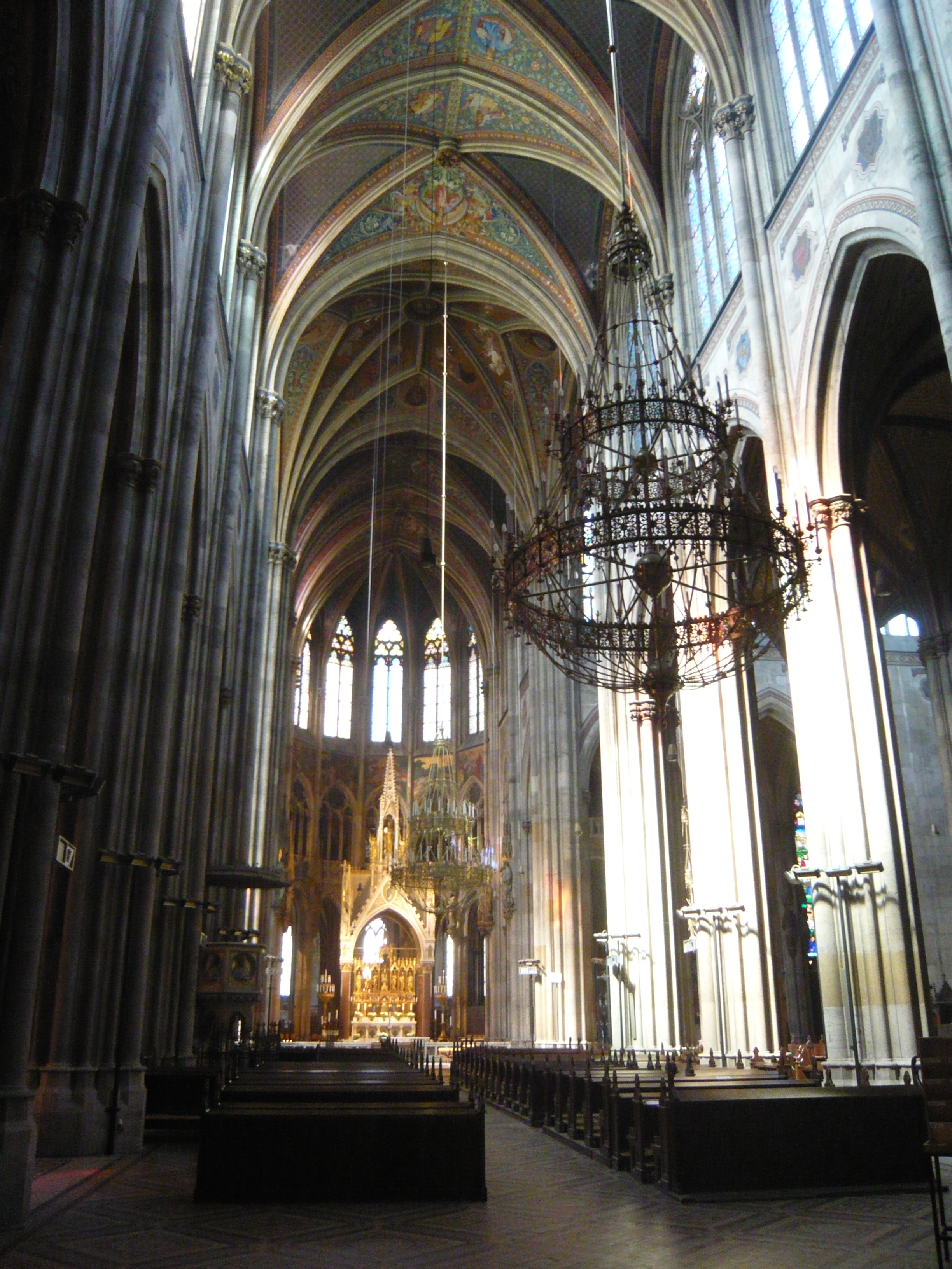 Votivkirche, Wien, Austria